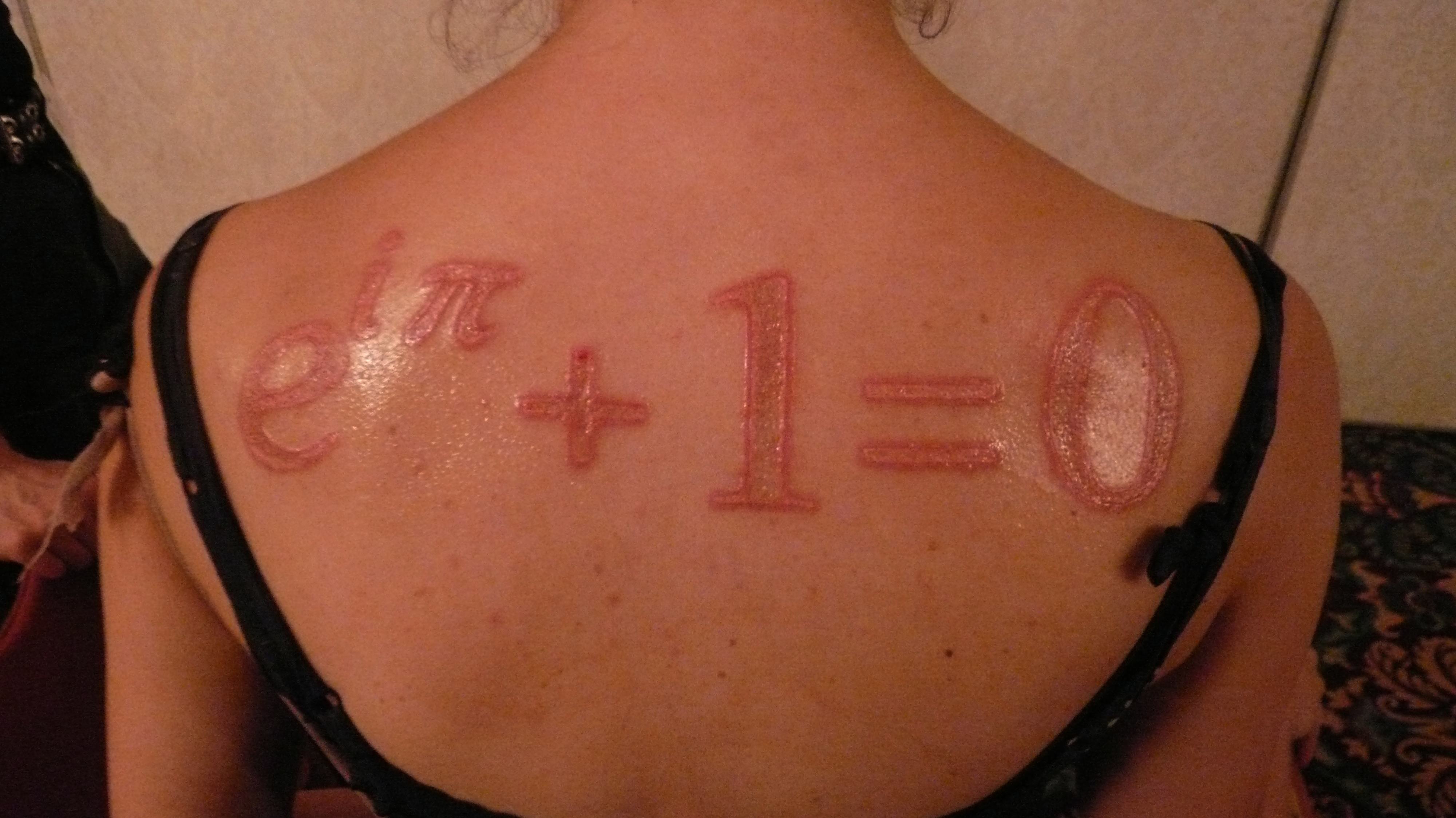 Euler's identity scarification, 3PiCon, Springfield, MA